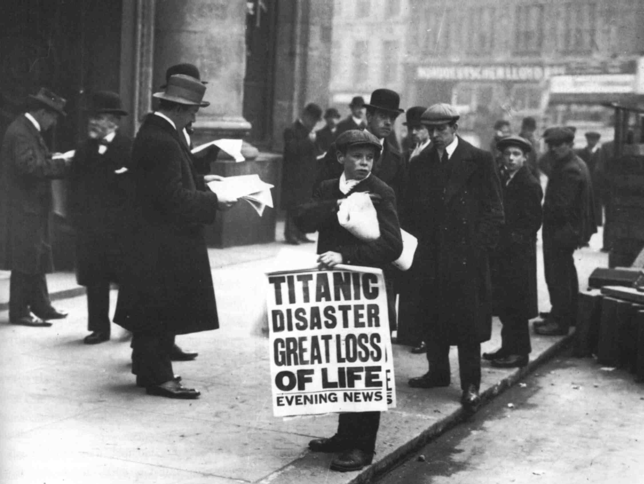 Ned Parfett, best known as the "Titanic paperboy", holding a large banner about the sinking outside the White Star Line offices in London, April 16, 1912.